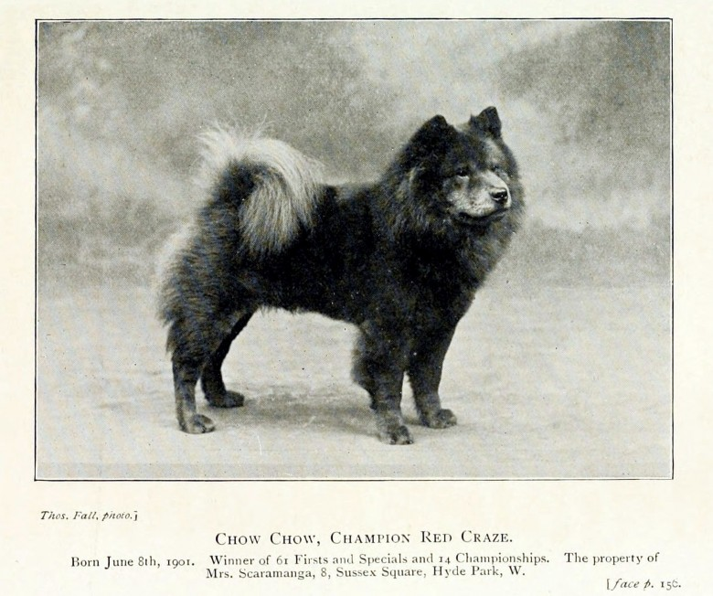 Chow chow, champion Red Craze, born June 8th, 1901